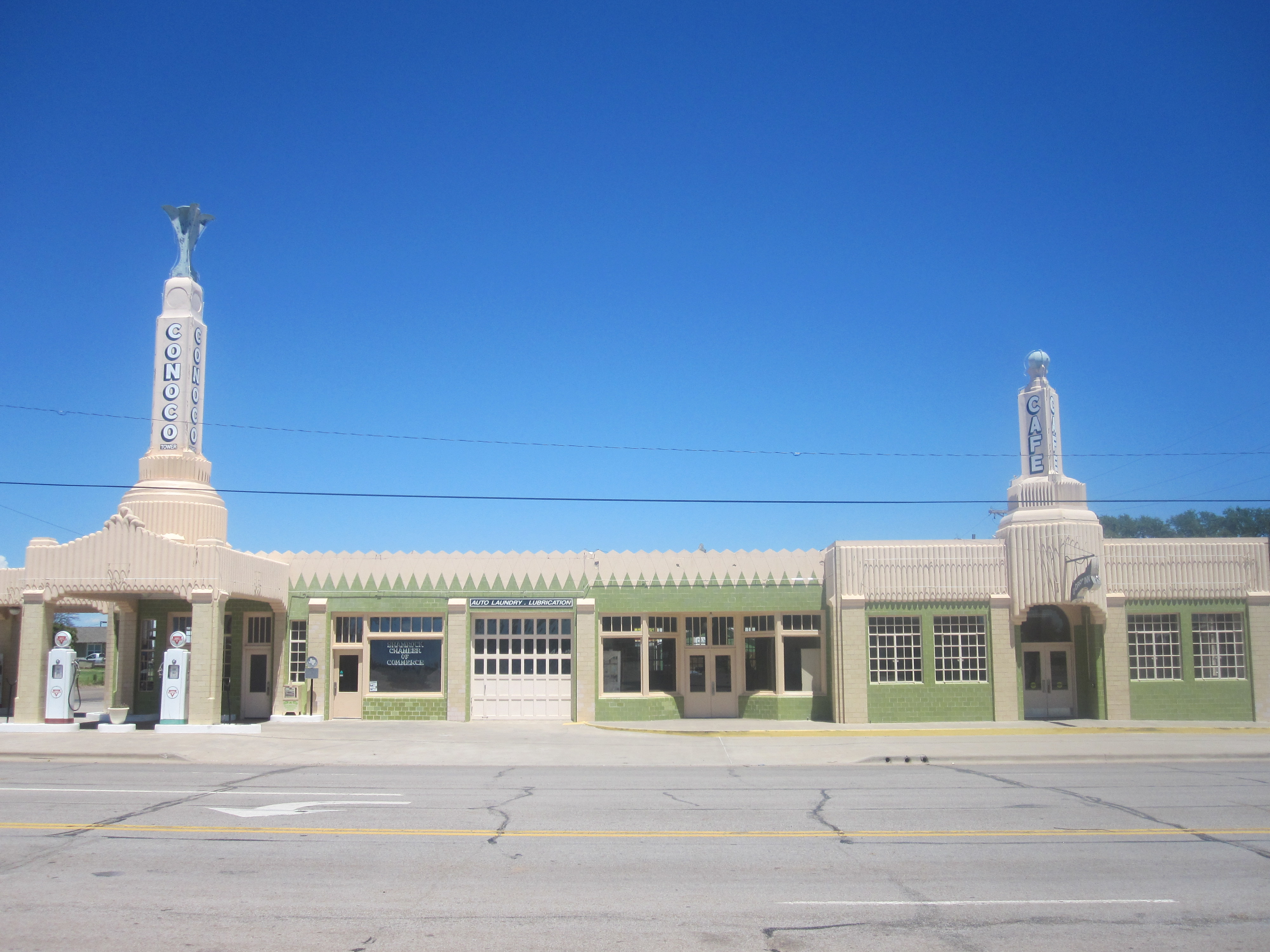 I took photo with Canon camera in Shamrock, TX.